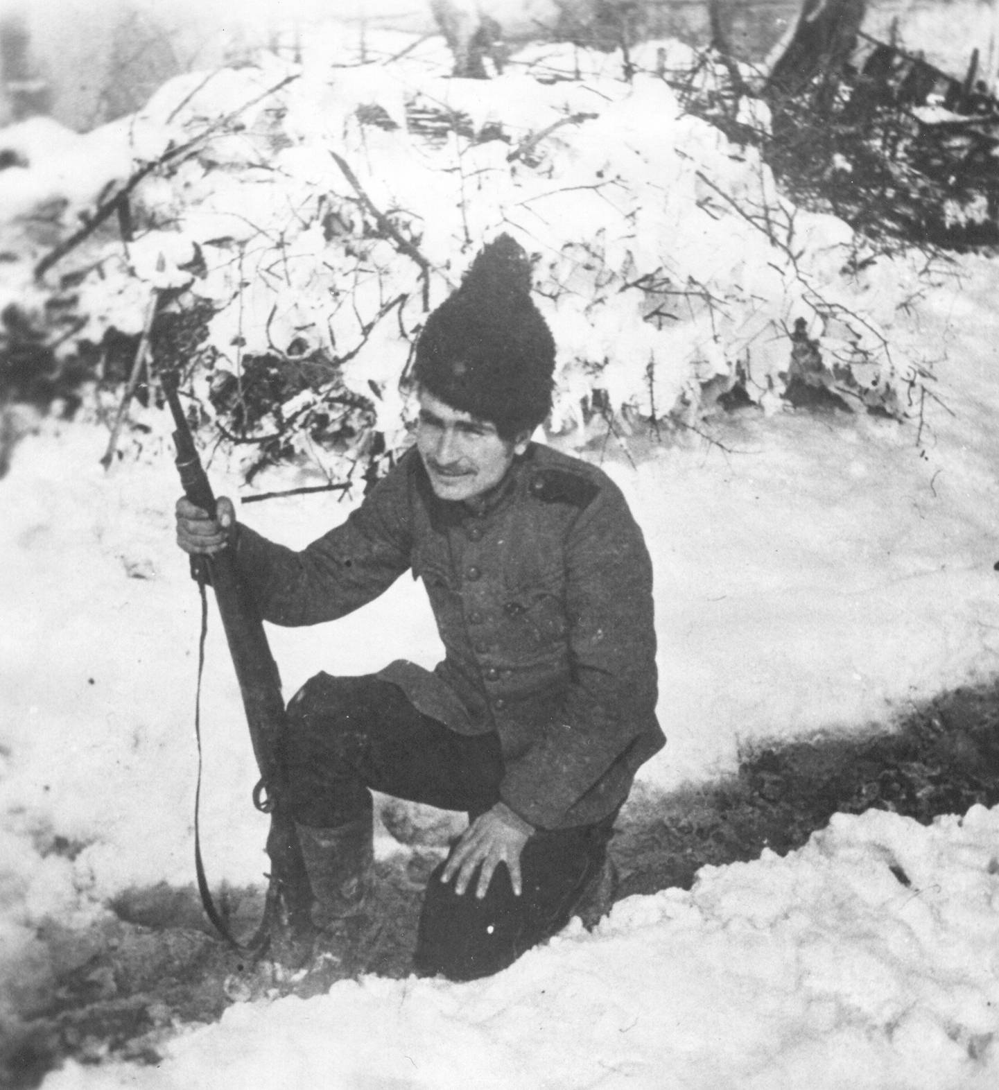 Aco Šopov